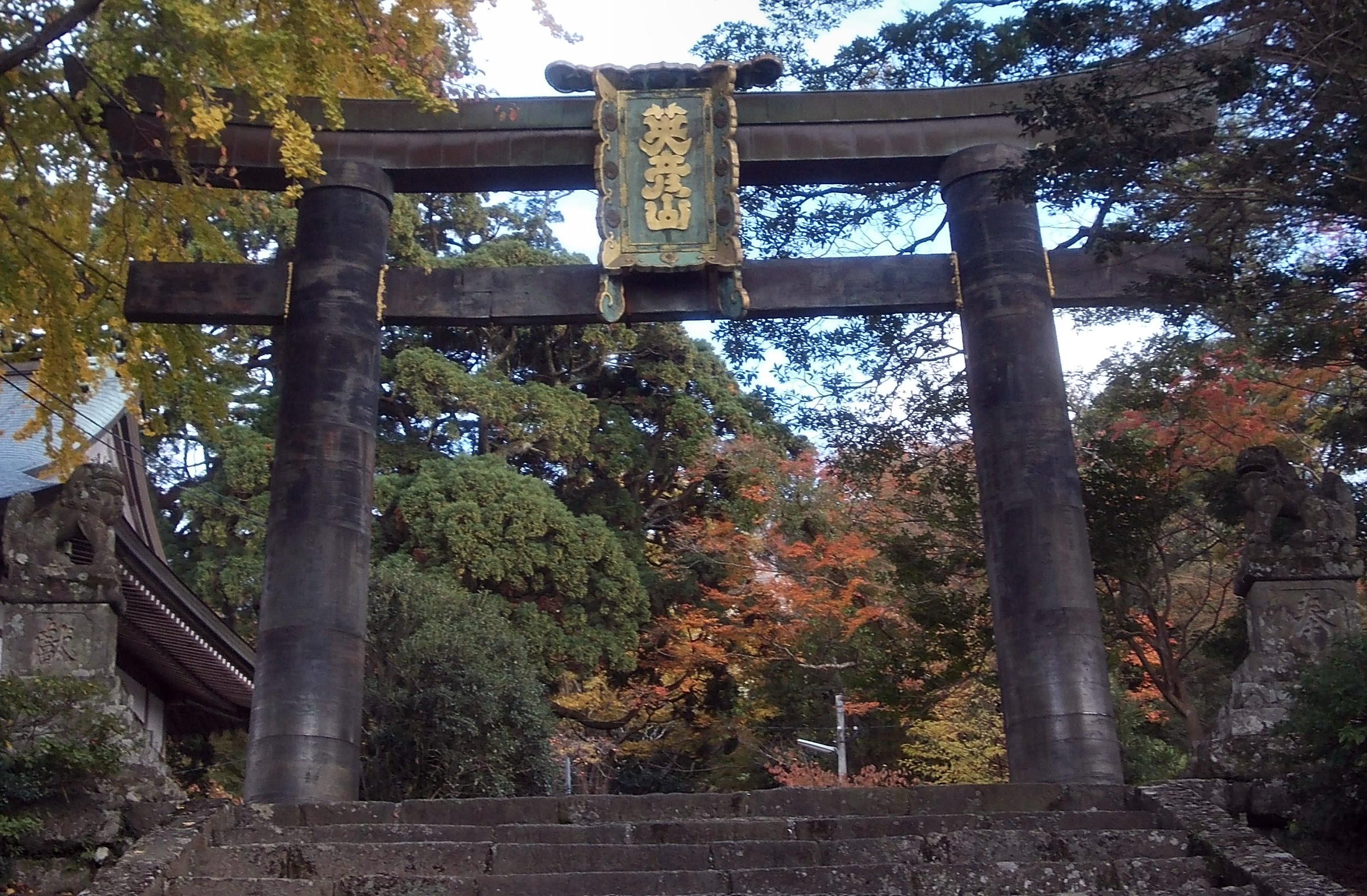 Kane-no-Torii, a bronze Shinto gateway built in 1637, have been designated Important Cultural Properties by the Japanese government.